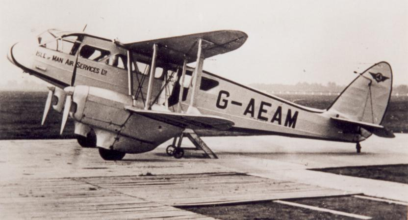 Isle of Man Air Serices DH.89 Dragon Rapide at Manchester Airport, Ringway